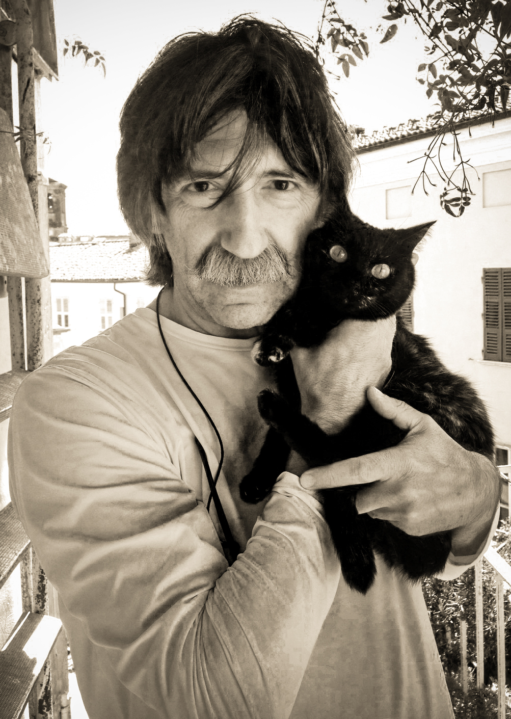 Ugo Giletta